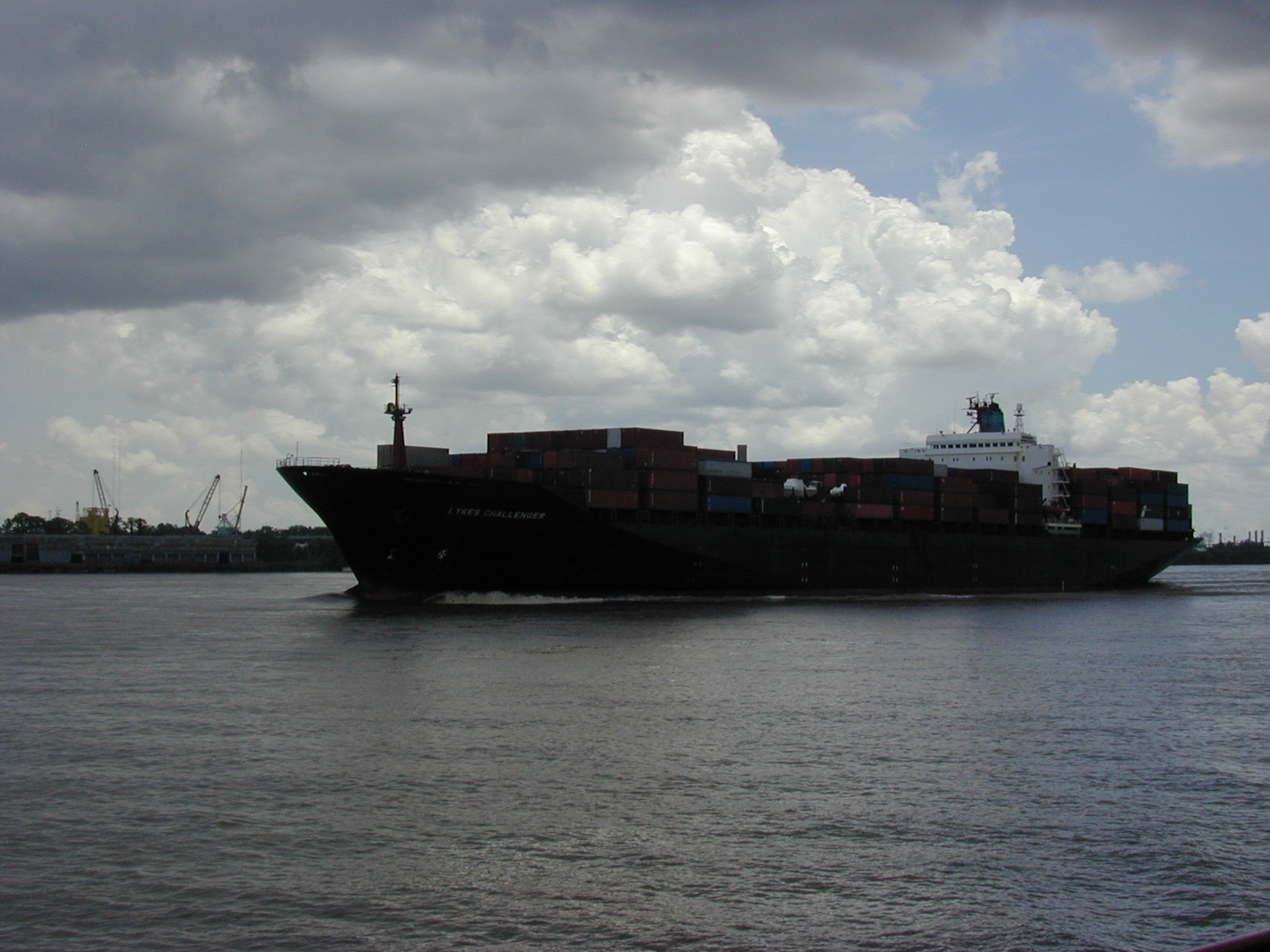 Large container ship LYKES CHALLENGER on the Mississpi. IMO Number: 8905957 Photo by Jan Kronsell, 2004.